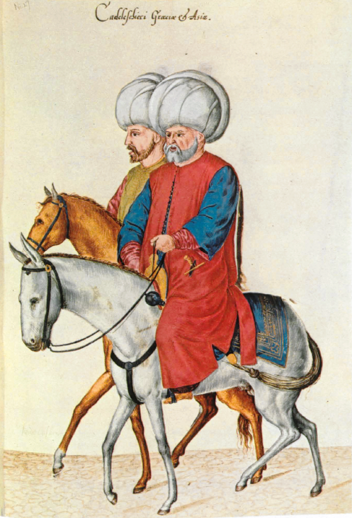 The two Ottoman kazaskers (army judges), one responsible for the Balkans (Rumeli) and one for Anatolia